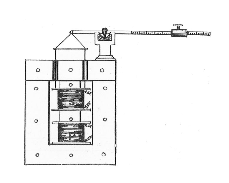 Prof. Elihu Thomson's constant-current transformer (Rankin Kennedy, Electrical Installations, Vol II, 1909).jpg